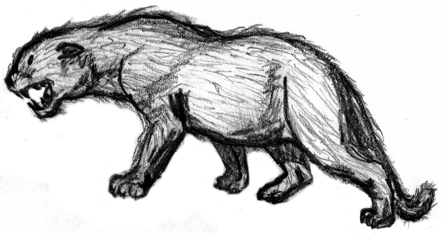 Dinofelis